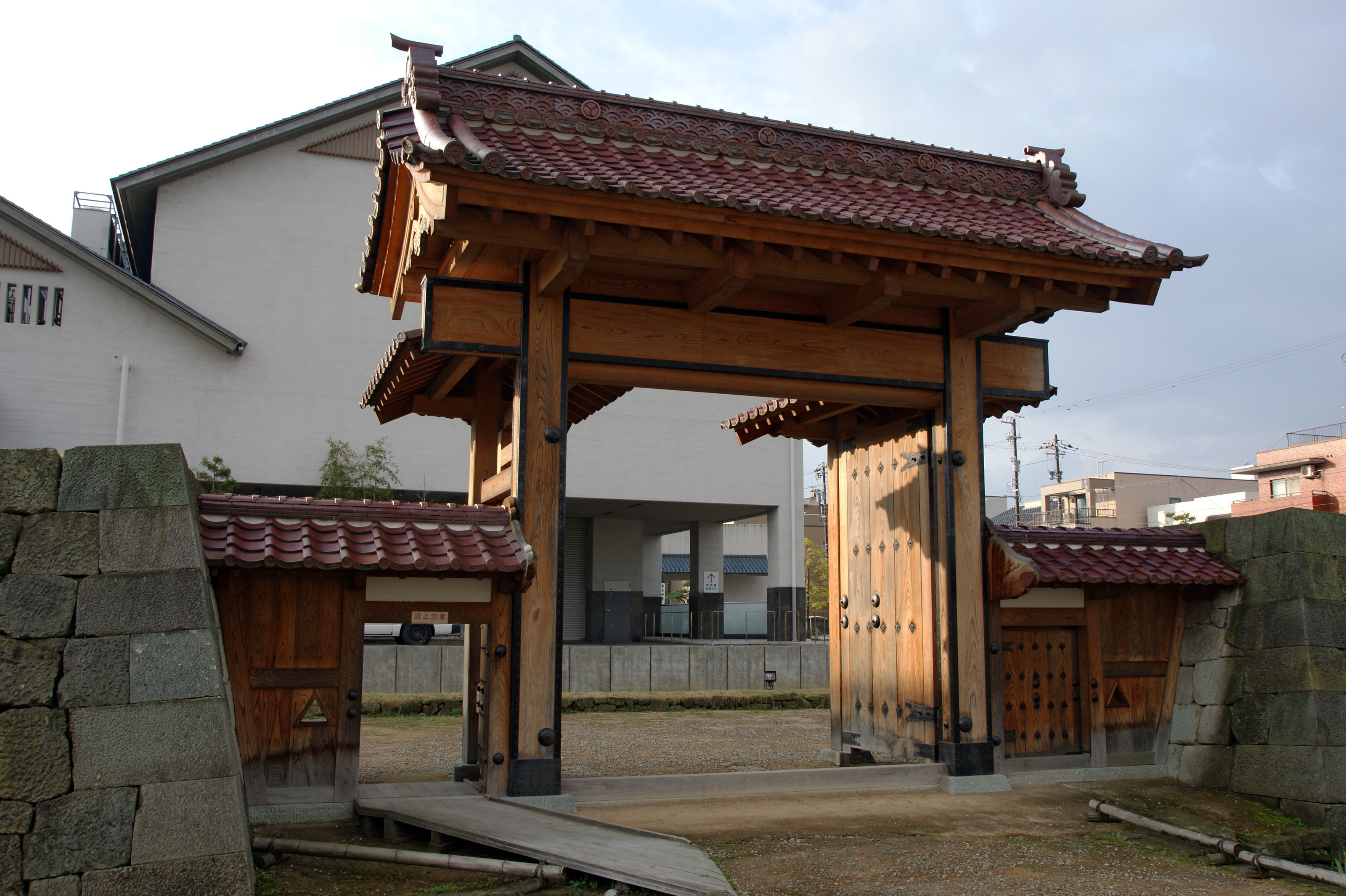 Fukui City History Museum, Fukui, Fukui prefecture, Japan